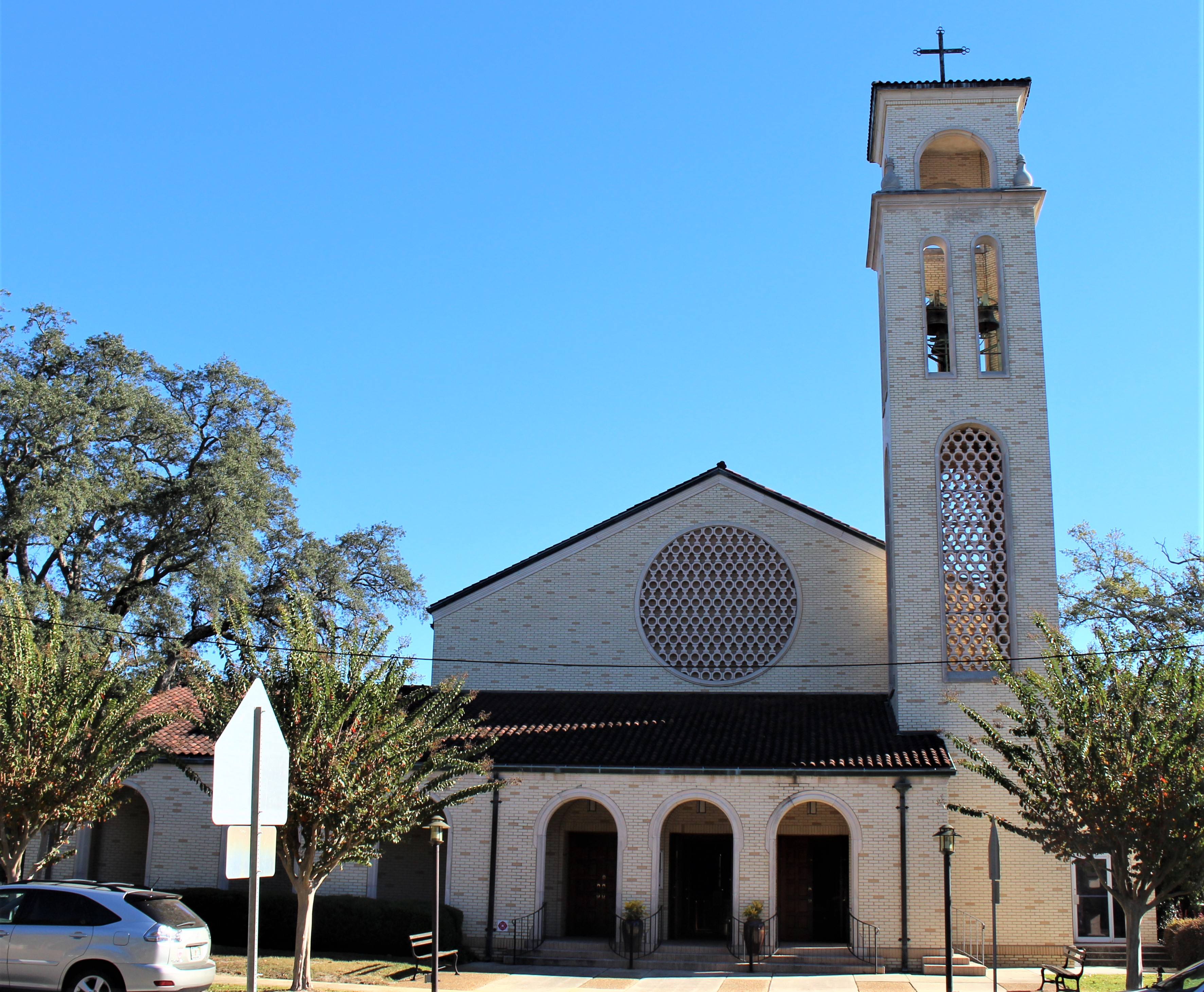 Cathedral of the Sacred Heart, Pensacola, Escambia County, Florida